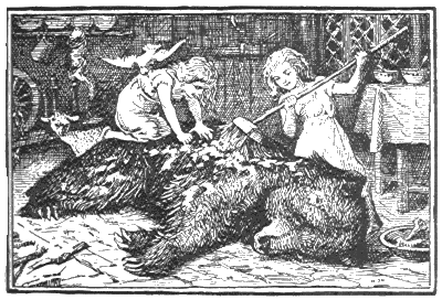 Illustration by H.J. Ford from the 1889 edition of 'The Blue Fairy Book' edited by Andrew Lang